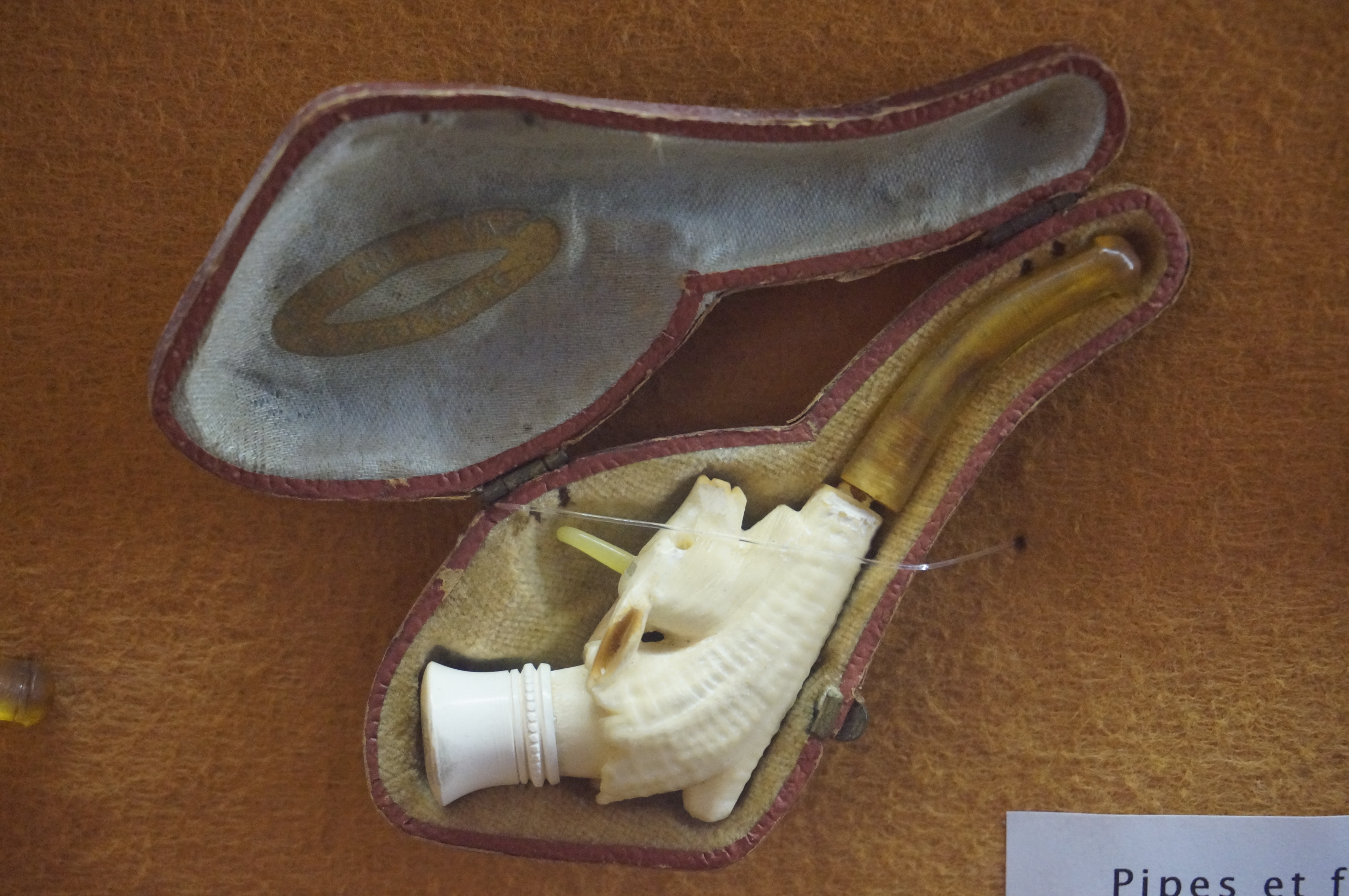 Meerschaum/écume de mer Kummer pipe or cigarette holder. Donated by Mme Noella Delrot to Musée de la Céramique d'Andenne.